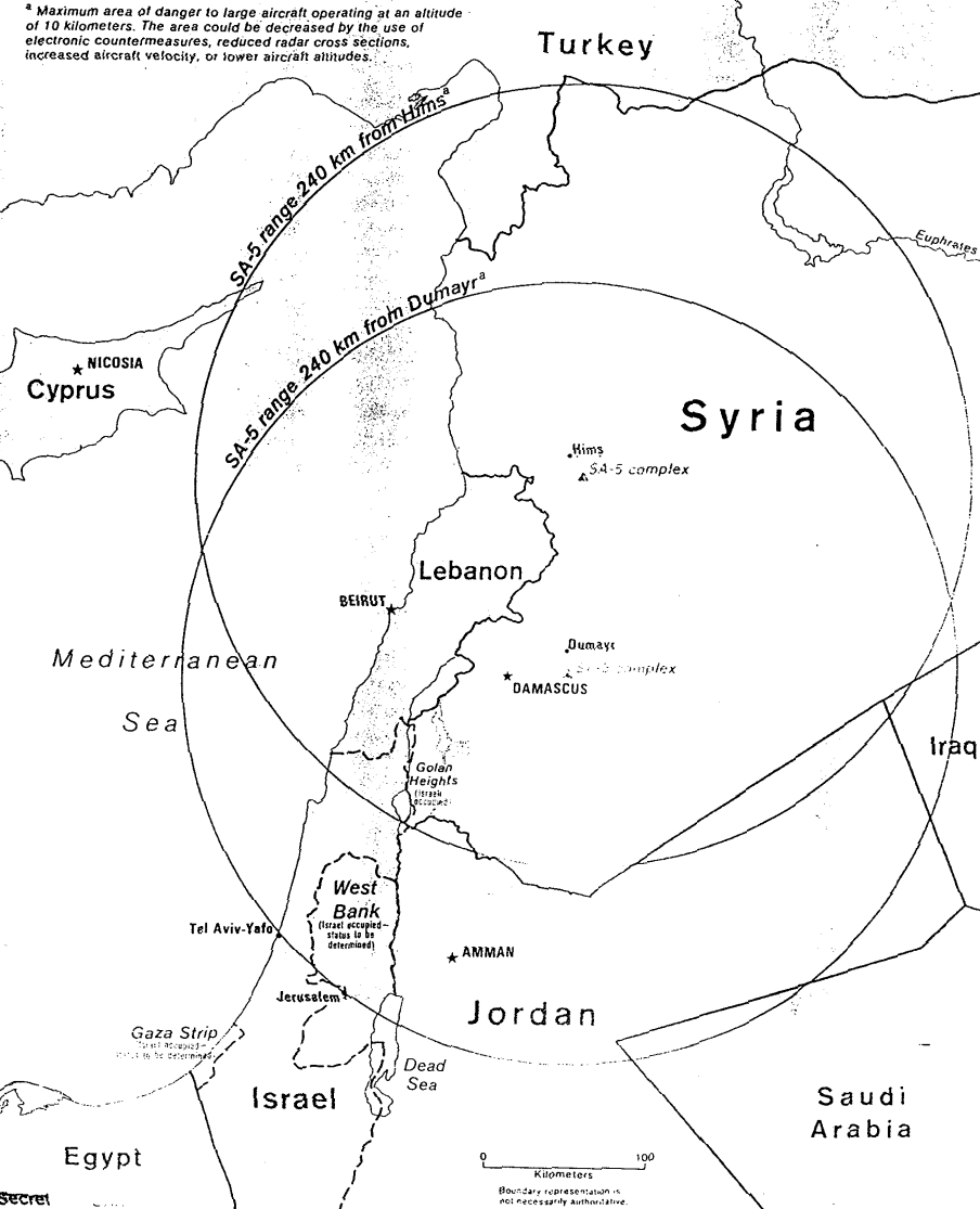 Syrian SA-5 Air Defense System.